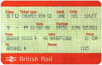 APTIS ticket showing original version of the "Y-P" status code (Y - P). Scanned from my own collection. Summary APTIS ticket showing original version of the "Y-P" status code (Y - P). Scanned from my own collection.